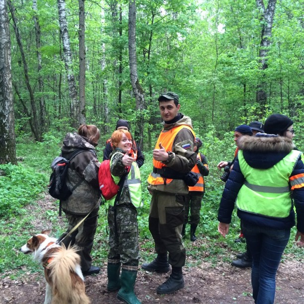 Liza Alert volunteers on a search-and-rescue mission